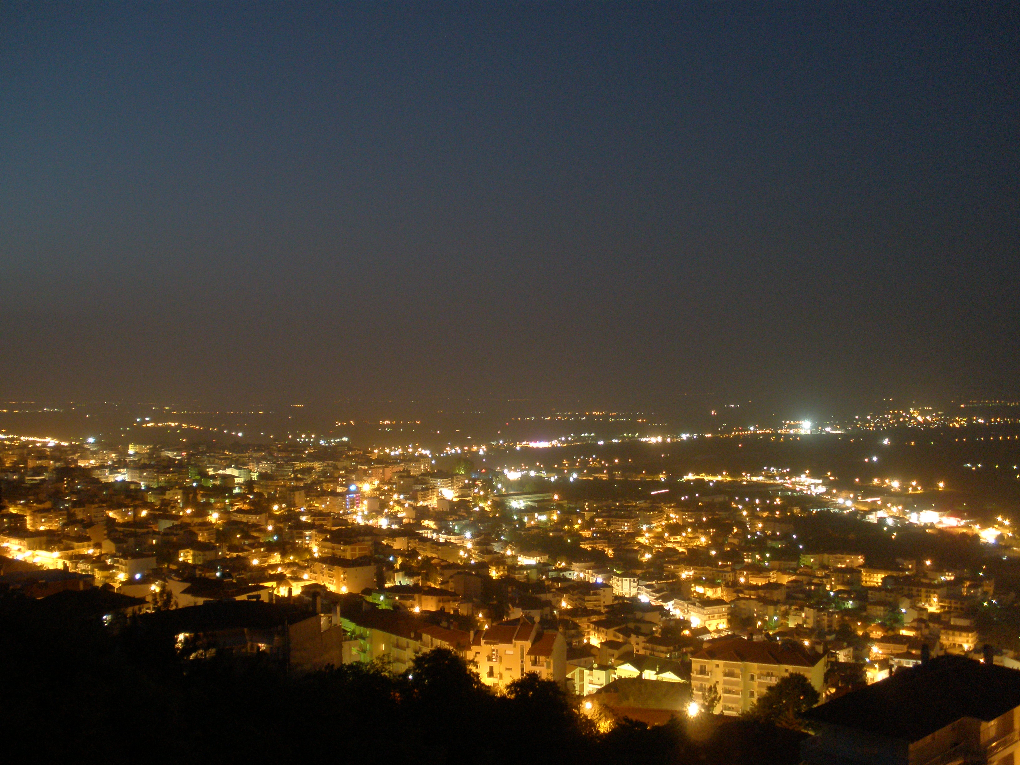 Veria nightview from Villa Vikella hill.